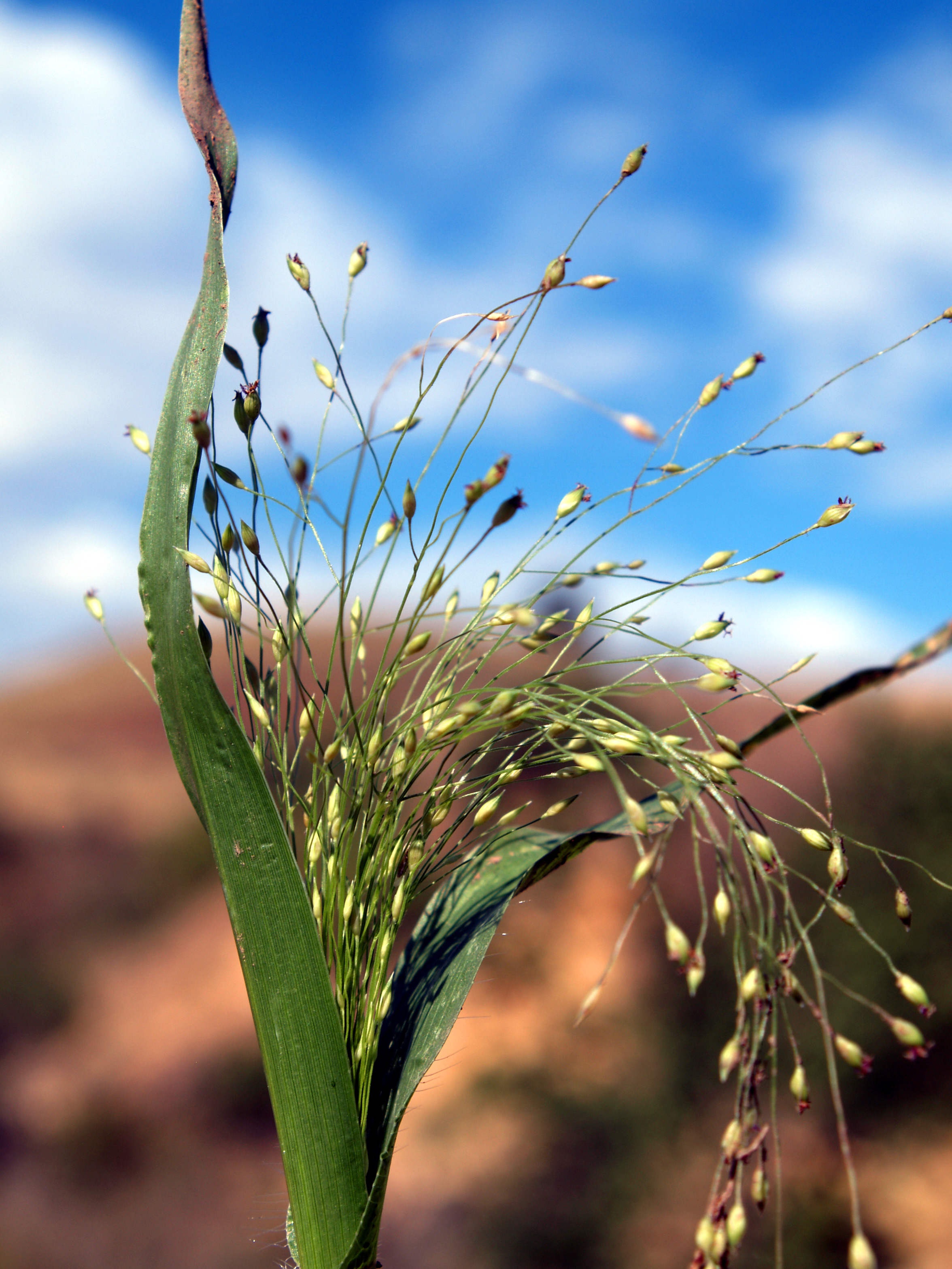 Panicum capillare at Wind Cave National Park, South Dakota, USA